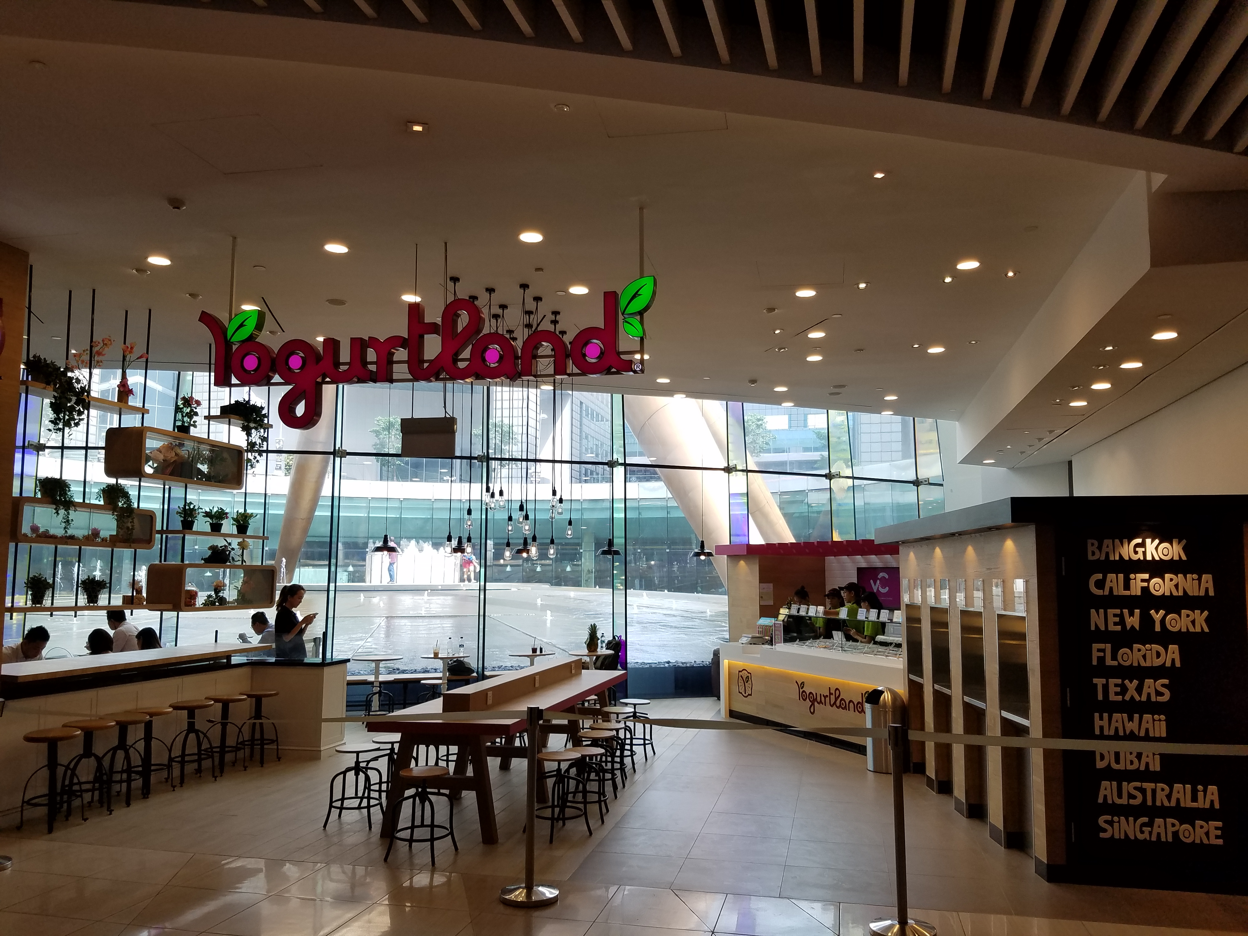 Yogurtland Sunetc City Mall, Singapore